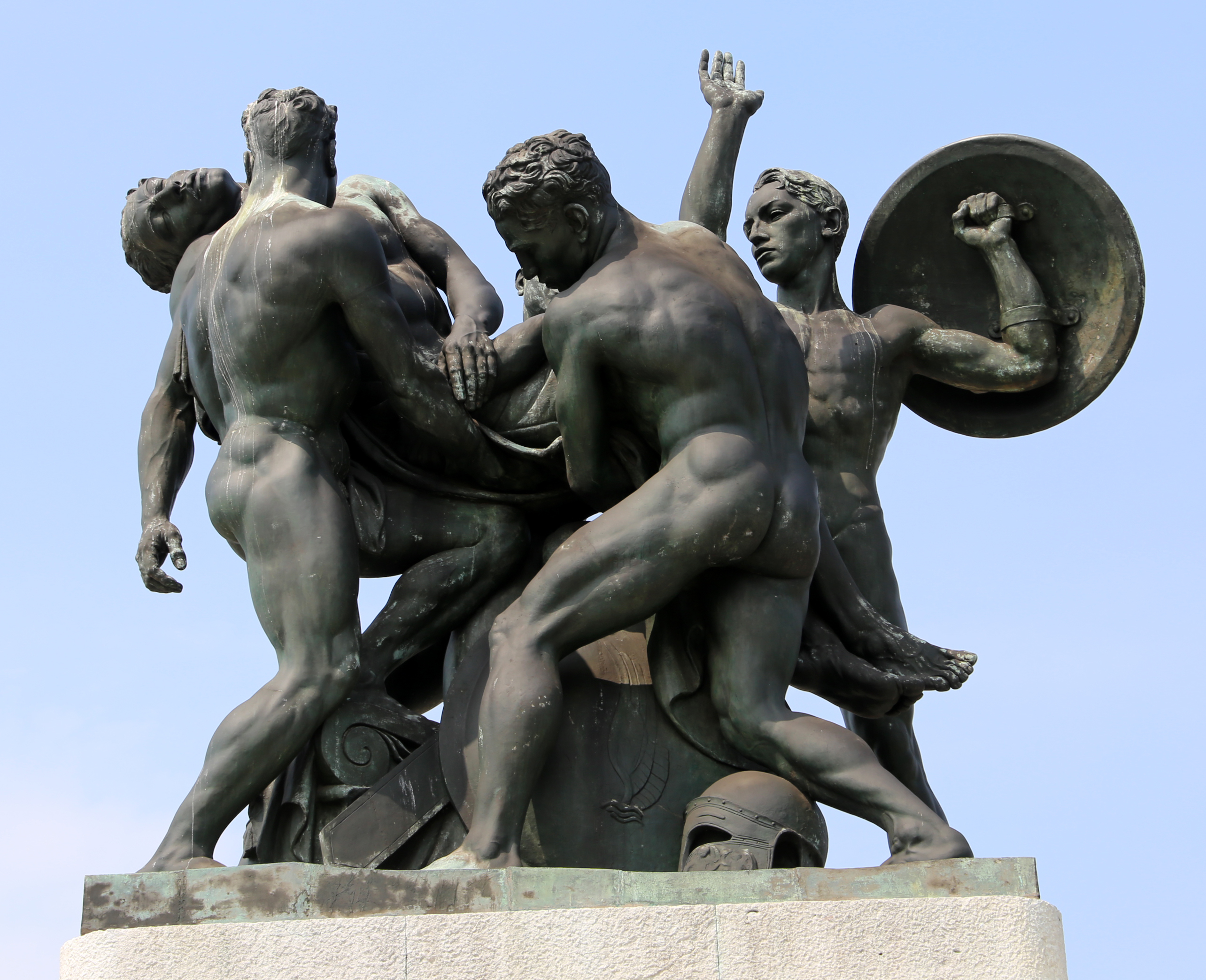 Trieste, miscellany